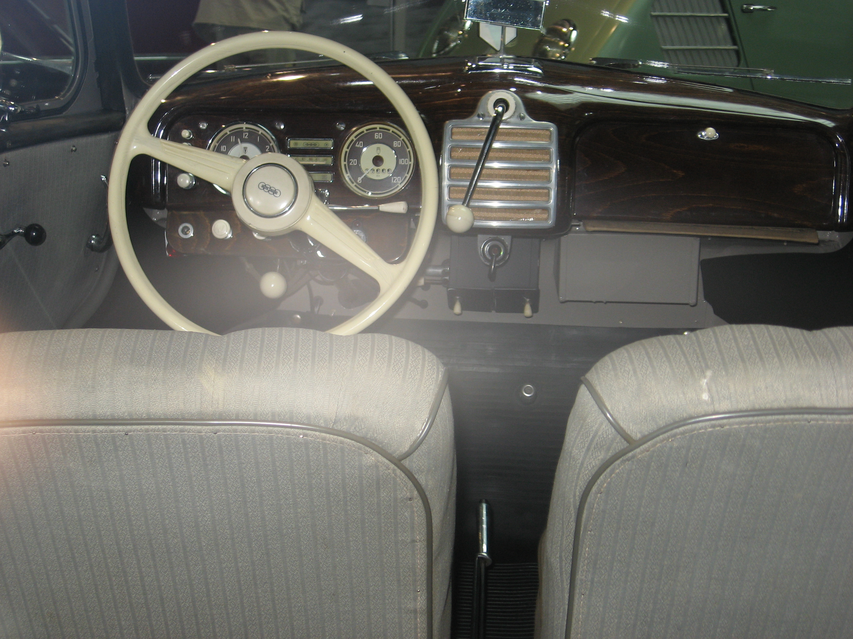 Subject: DKW F89 Author: Luc106 Date: June 13th, 2011 Place/Country: Audi Museum, Ingolstadt (Deutschland) I release all rights in the public domain. Licensing